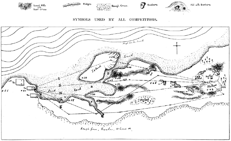 Alister MacKenzie's winning Design in Country Life's 1914 Golf Architecture Competition, later realized by Charles Blair Macdonald as Hole 18 of the Lido Golf Course